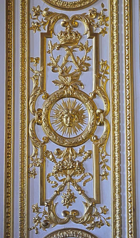 Antique carved gilt wood panelling in Versailles